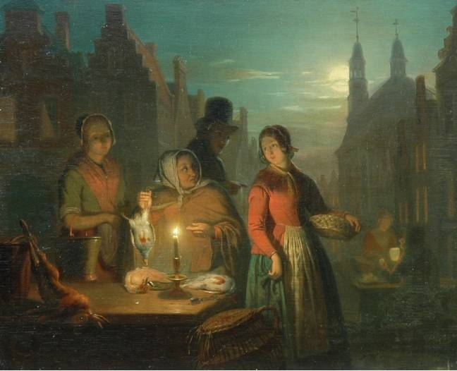 Evening market